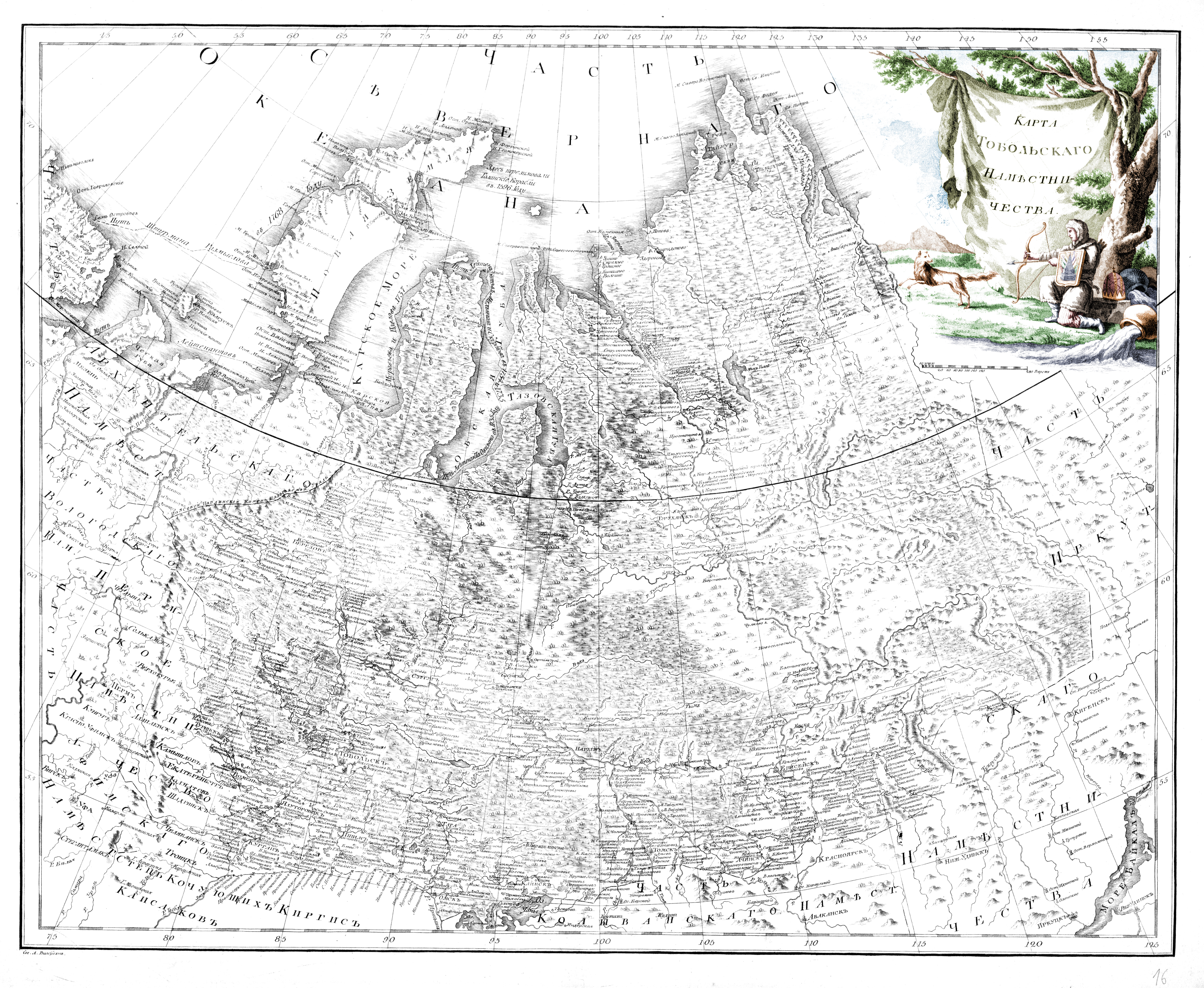 Map of Tobolsk Namestnichestvo (sheet 16) from official Atlas of the Russian Empire (1792). With colour cartouche.